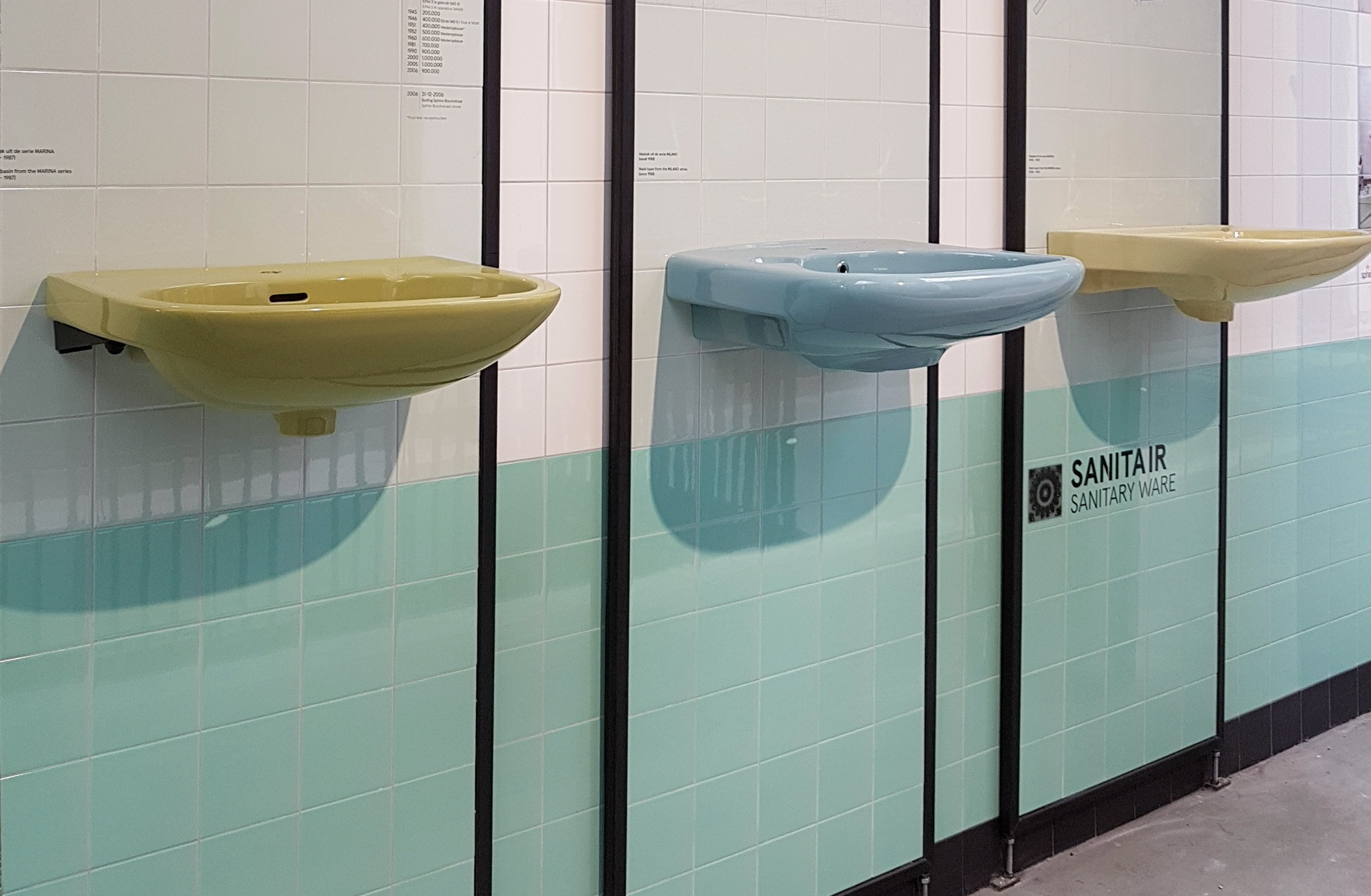 Display of wash basins in the Sphinx Passage in Maastricht, Netherlands. The Sphinx Passage is a semi-public covered walkway, situated between the 1930s Eiffel Building and the modern Pathé Cinema, in the heart of the Sphinx Quarter, the former site of the Petrus Regout and Royal Sphinx potteries. The blind east wall of the passage is entirely tiled, showing Maastricht's history as an early industrial pottery town. The displays in the showcases are of ceramic products produced on site. Here: wash bassins of 1987.